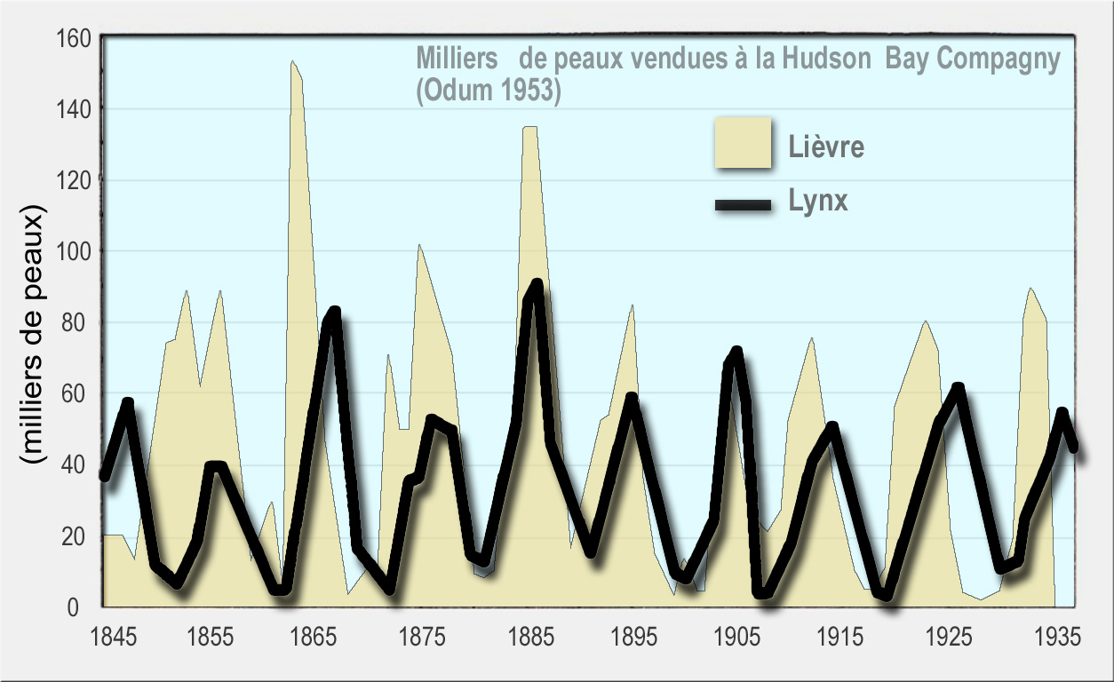 Canad lynx and American hare. This graph shows that the two species have cyclic population dynamics. Source: according to statistics collected by Odum archives (published 1953 ; Odum EP (1953) Fundamentals of ecology. WB Saunders, Philadephia